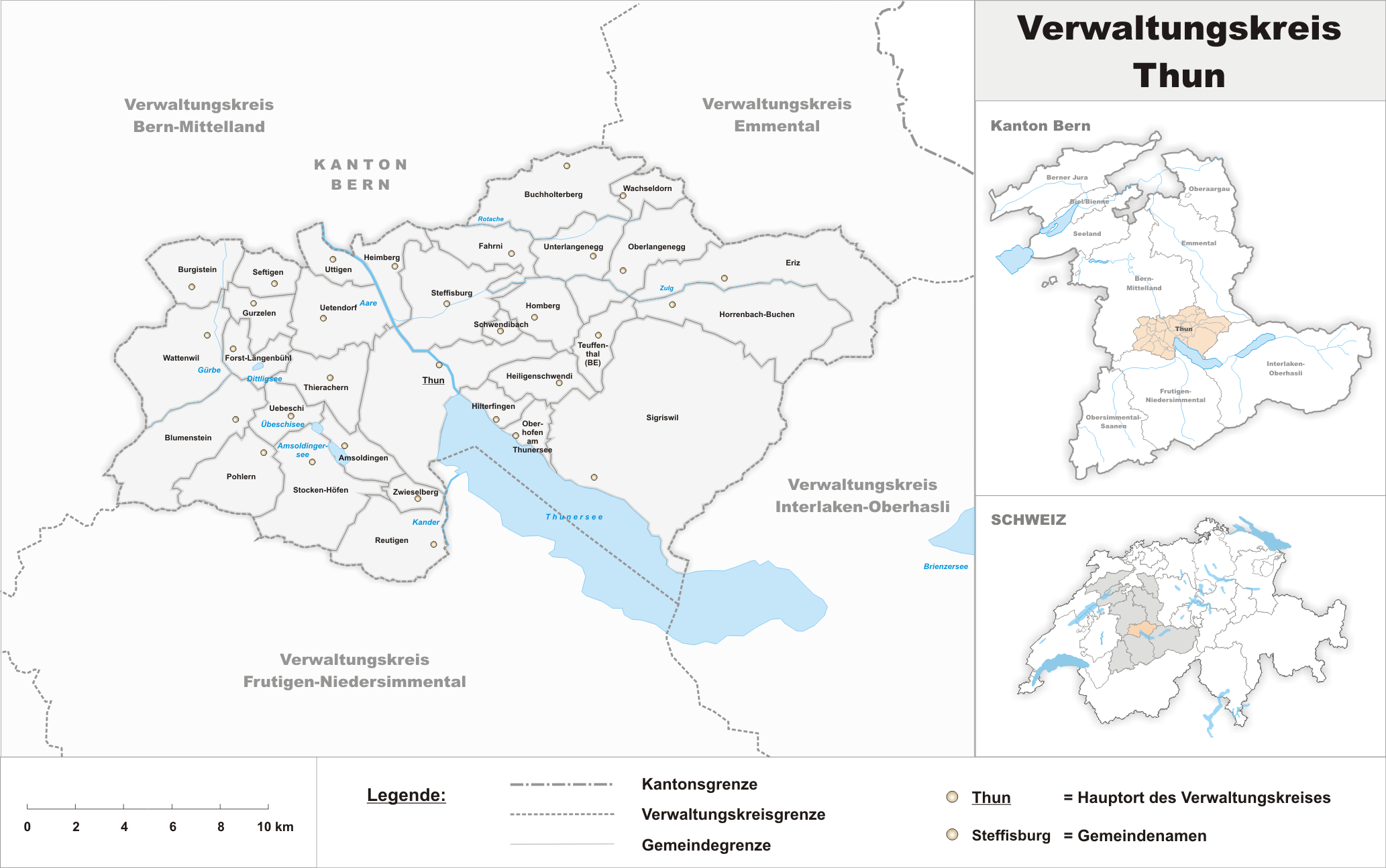 Municipalities in the district of Thun